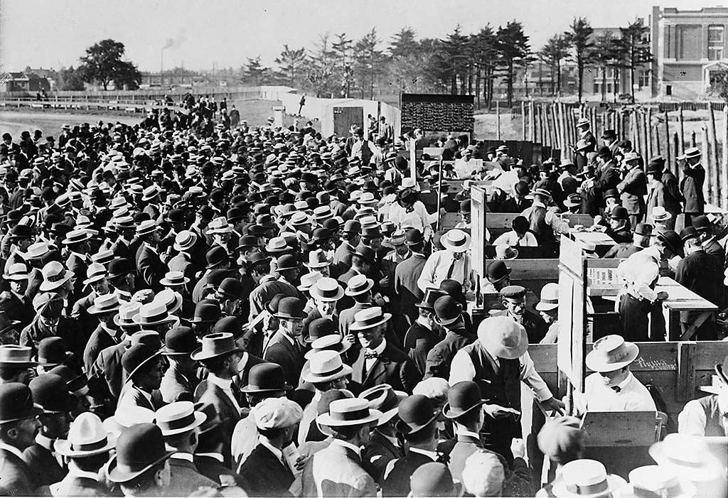 Gambling at the Dufferin Racetrack, Dufferin St, Toronto